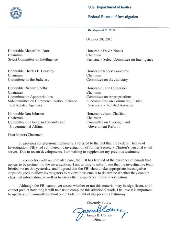 The infamous Comey Letter